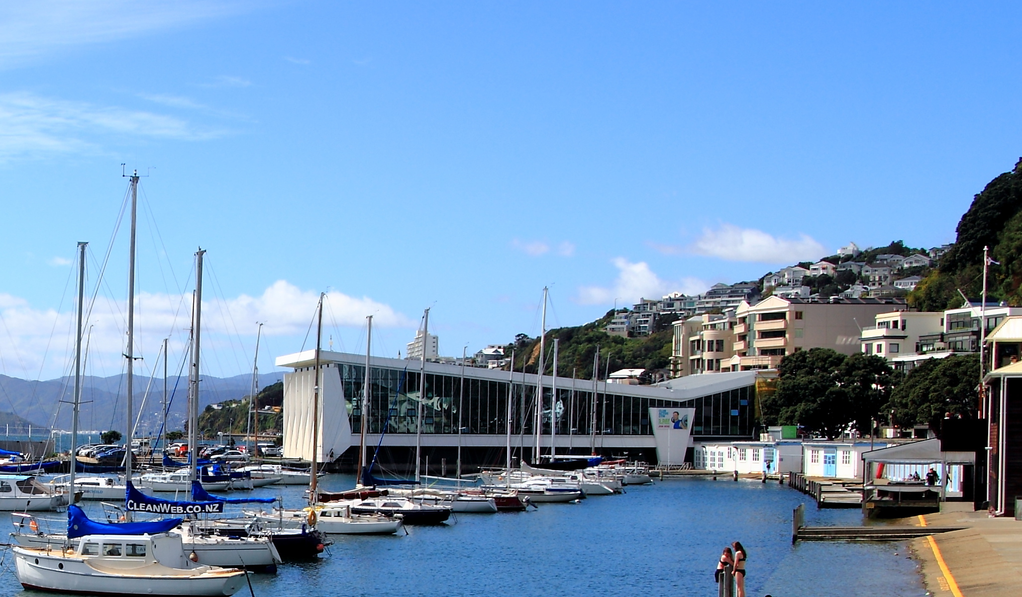 Freyberg Pool & Fitness Centre October 2017